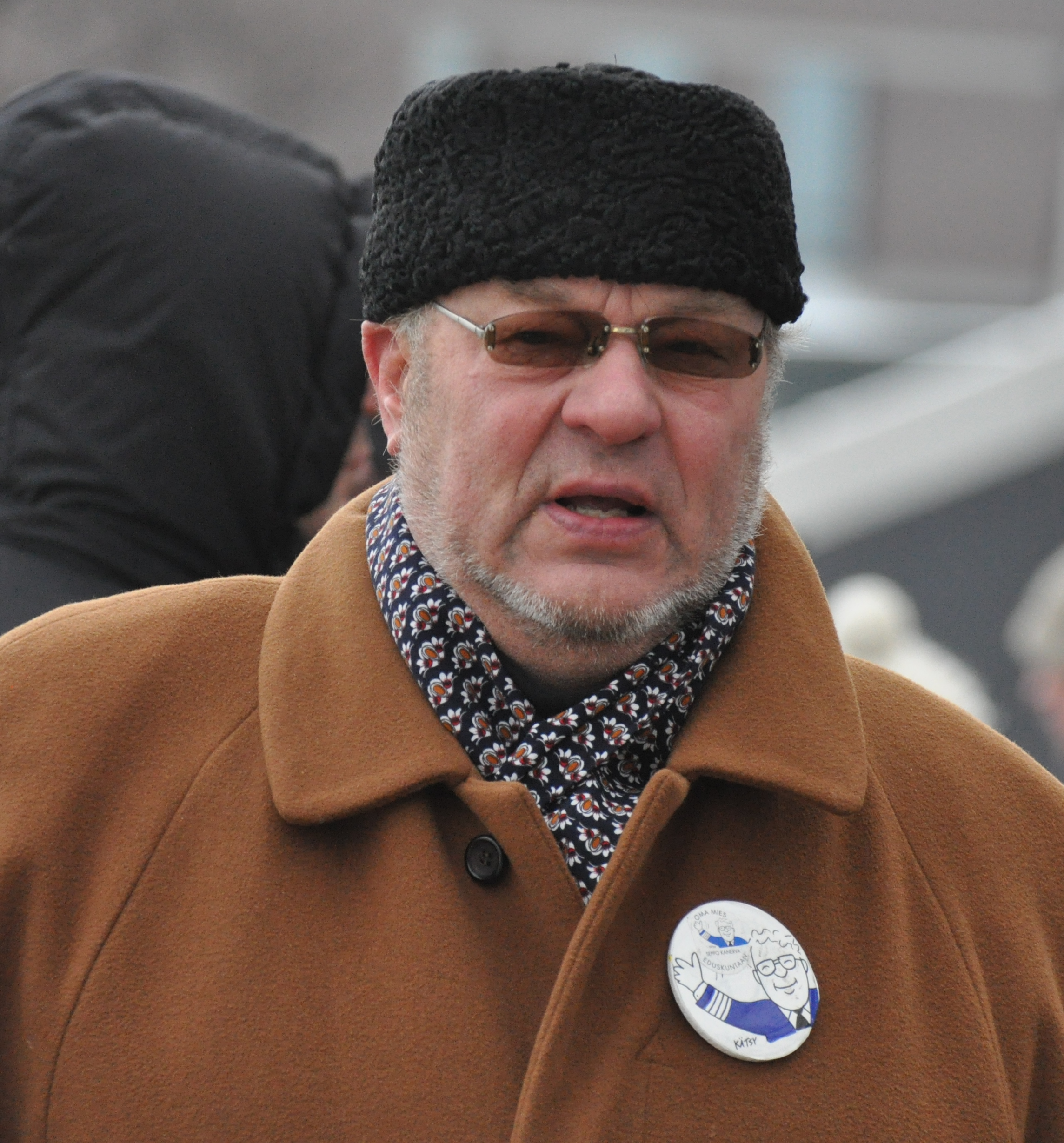 Finnish former MP Seppo Kanerva in Helsinki, 2011.